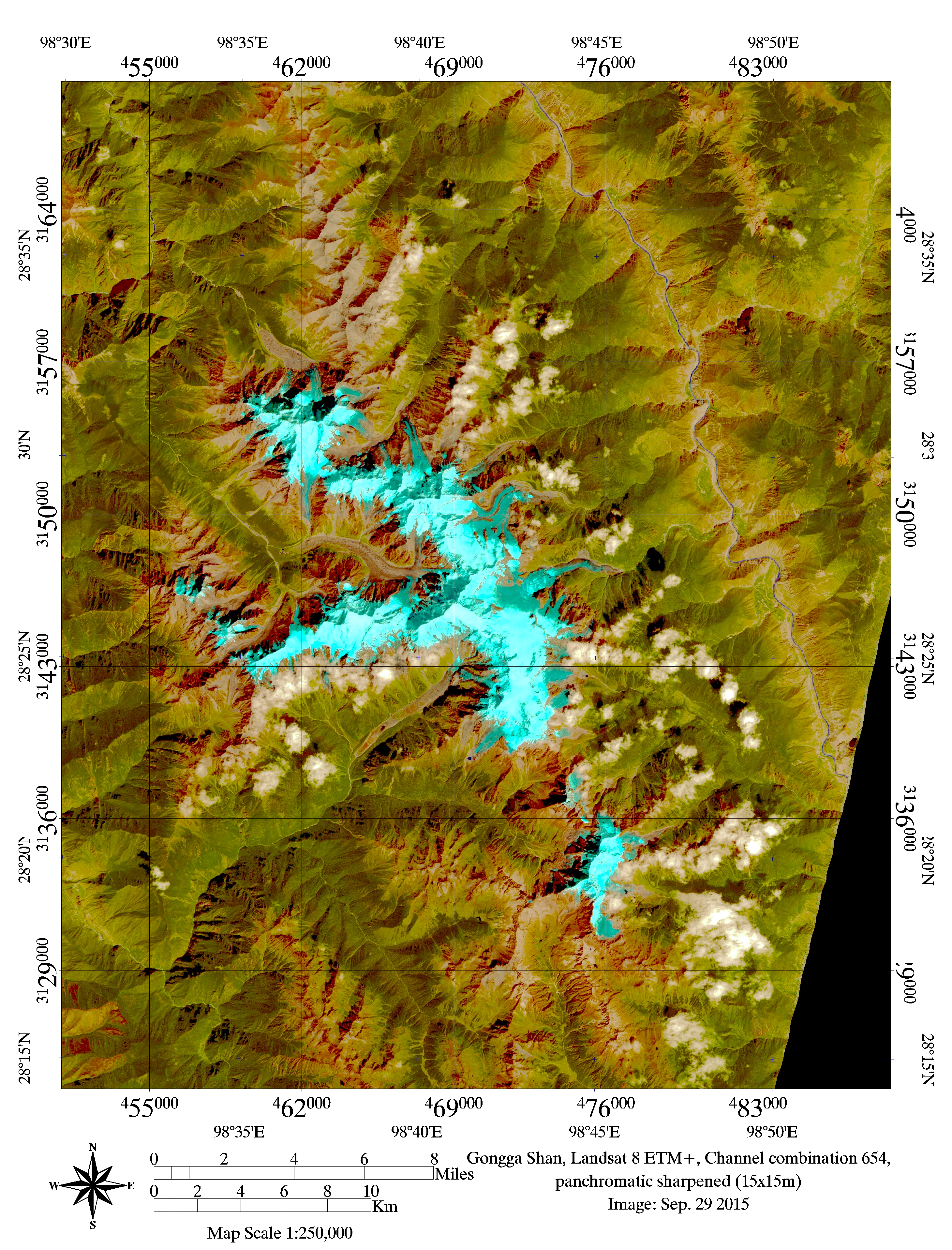 Gongga Shan, Landsat 8 ETM+, Sep. 29 2015